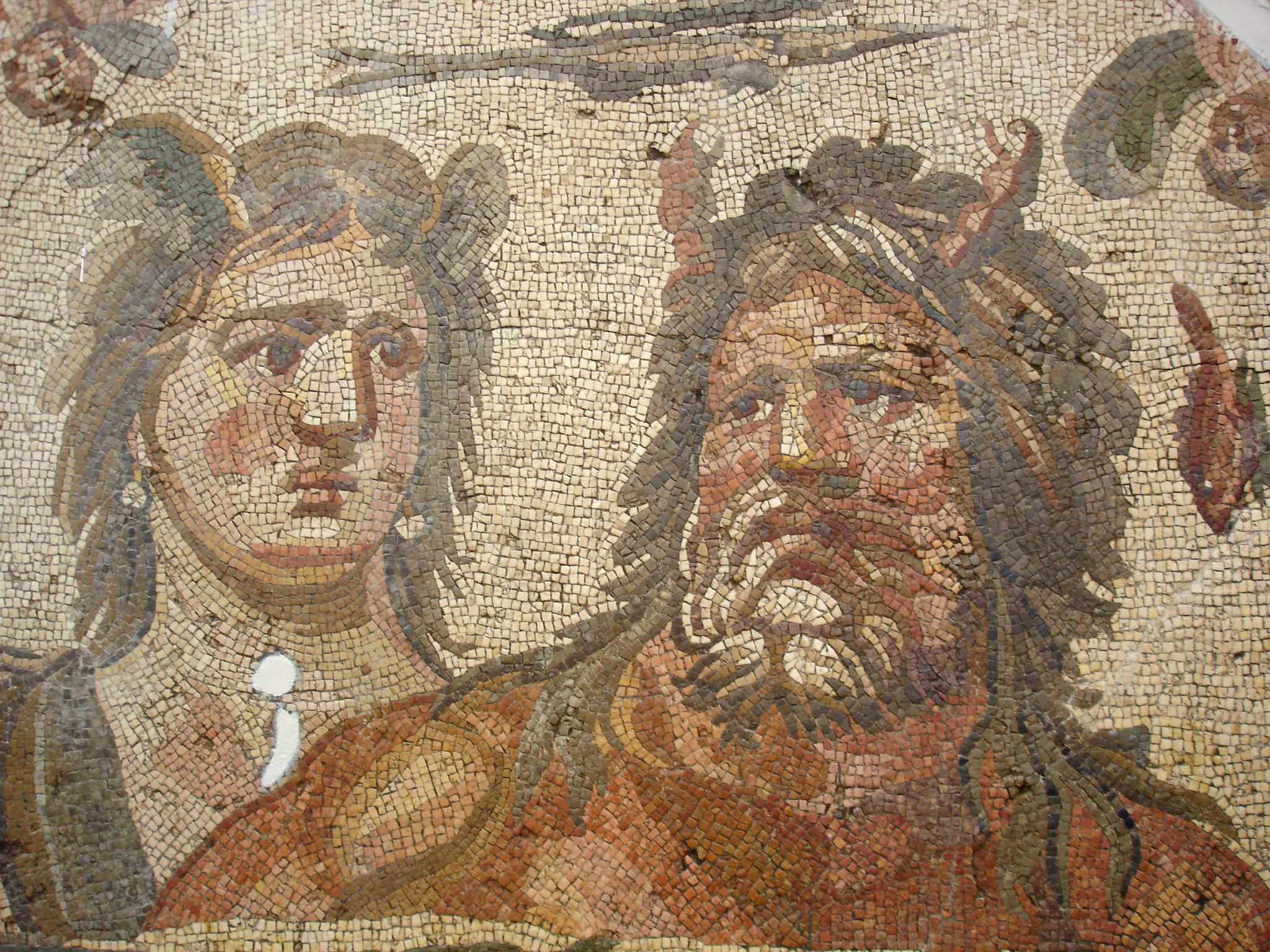 Photographs from Antakya Archaeological Museum. Oceanos, with crab-claw horns, and his wife Tethys.